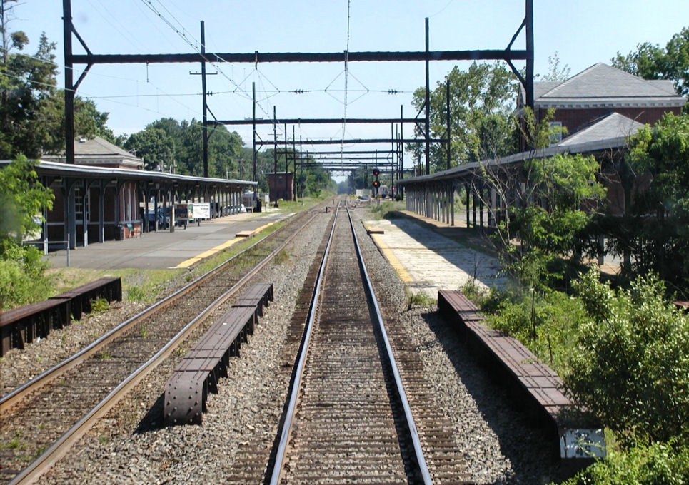 West Trenton Septa Station on the SEPTA R3 Regional Rail line. Inbound train has a RESTRICTING signal at TRENT interlocking into the yard.